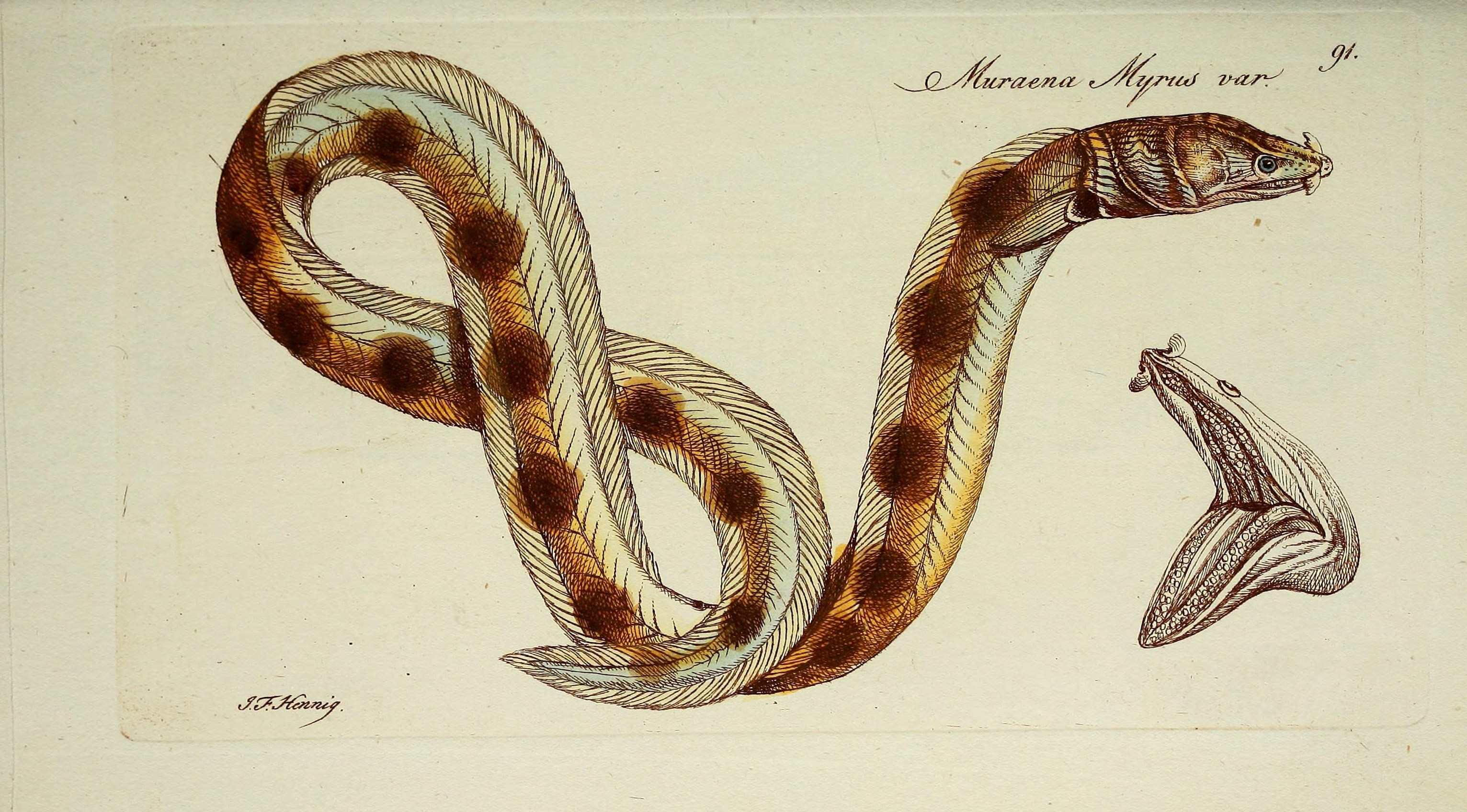 M.E. Blochii ... Systema ichthyologiae iconibus CX illustratum / post obitum auctoris opus inchoatum absoluit, correxit, interpolavit Jo. Gottlob Schneider, Saxo.